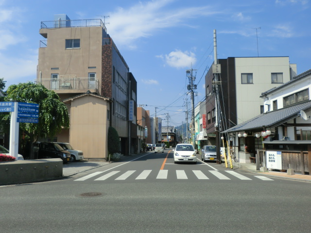 Starting point of Fukuoka Prefectural Road No.511 of Ukiha city,Fukuoka prefecture,Japan.